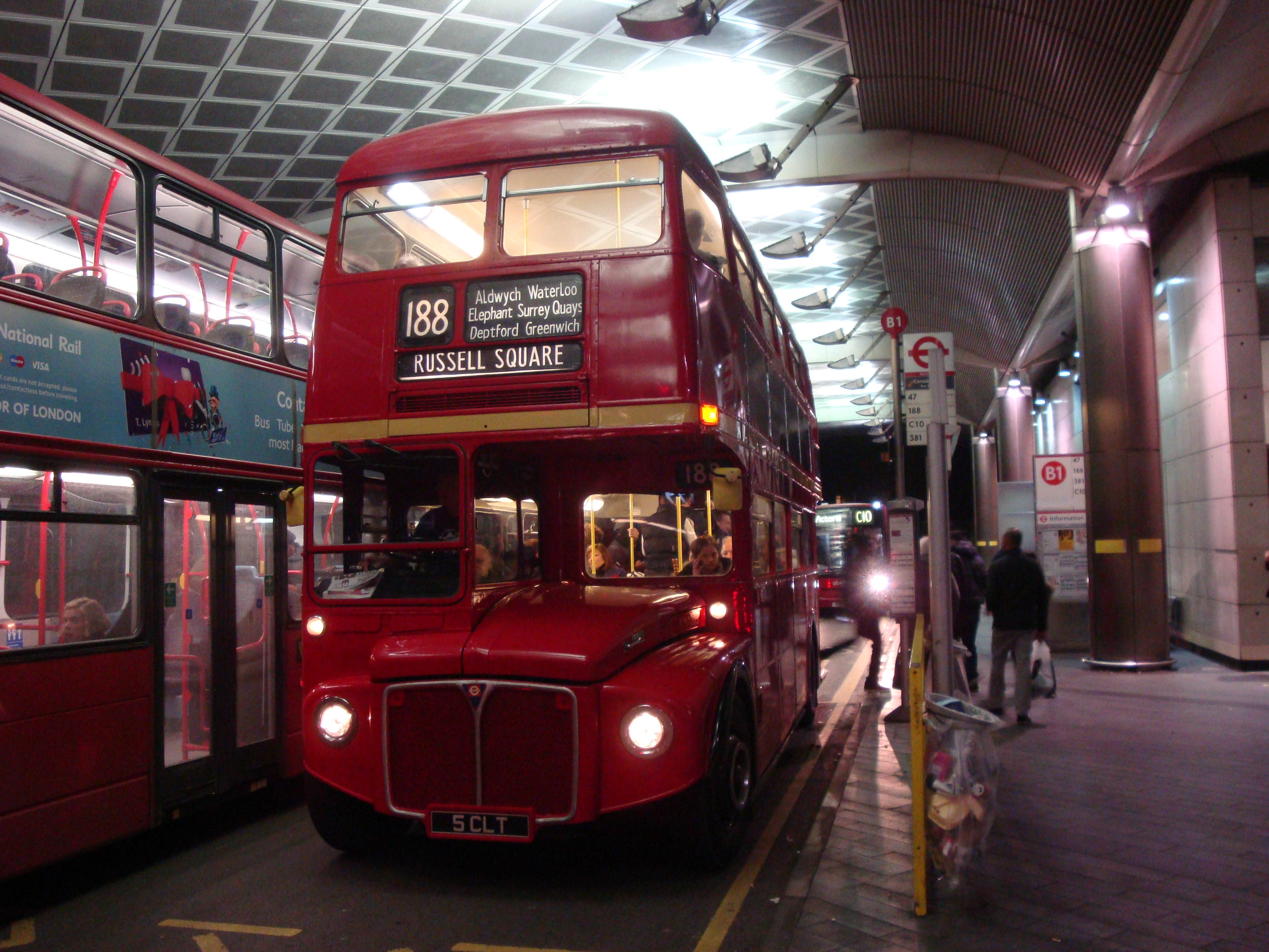 5CLT Running for the Royal British Legion Poppy Appeal, both this and RM903 on Route 4 fundraising for charity.